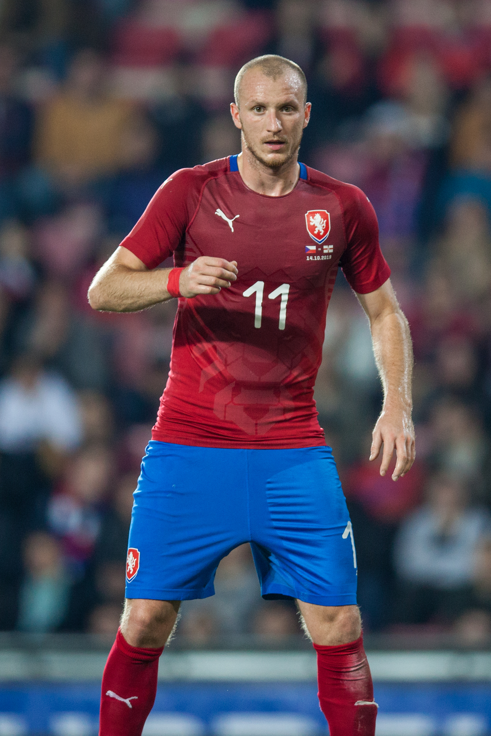 Michael Krmenčík in an international friendly match between Czech Republic and Northern Ireland (2:3), Stadion Letná (Prague) 2019-10-14 The making of this work was supported by Wikimedia Austria. For other files made with the support of Wikimedia Austria, please see the category Supported by Wikimedia Österreich. Personality rights warningAlthough this work is freely licensed or in the public domain, the person(s) shown may have rights that legally restrict certain re-uses unless those depicted consent to such uses. In these cases, a model release or other evidence of consent could protect you from infringement claims.